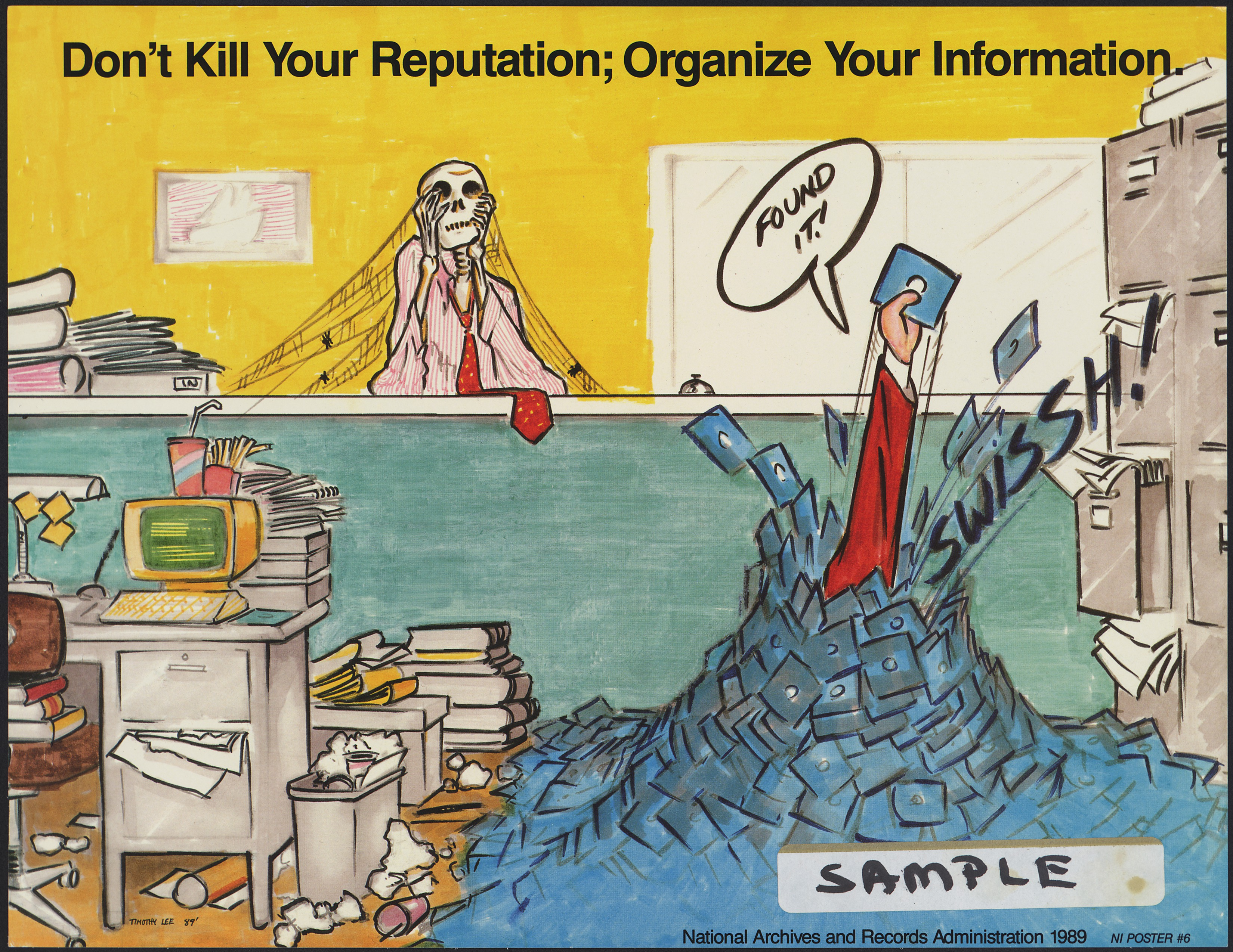 Scope and content: The National Archives and Records Administration created this poster to promote good records management practices.